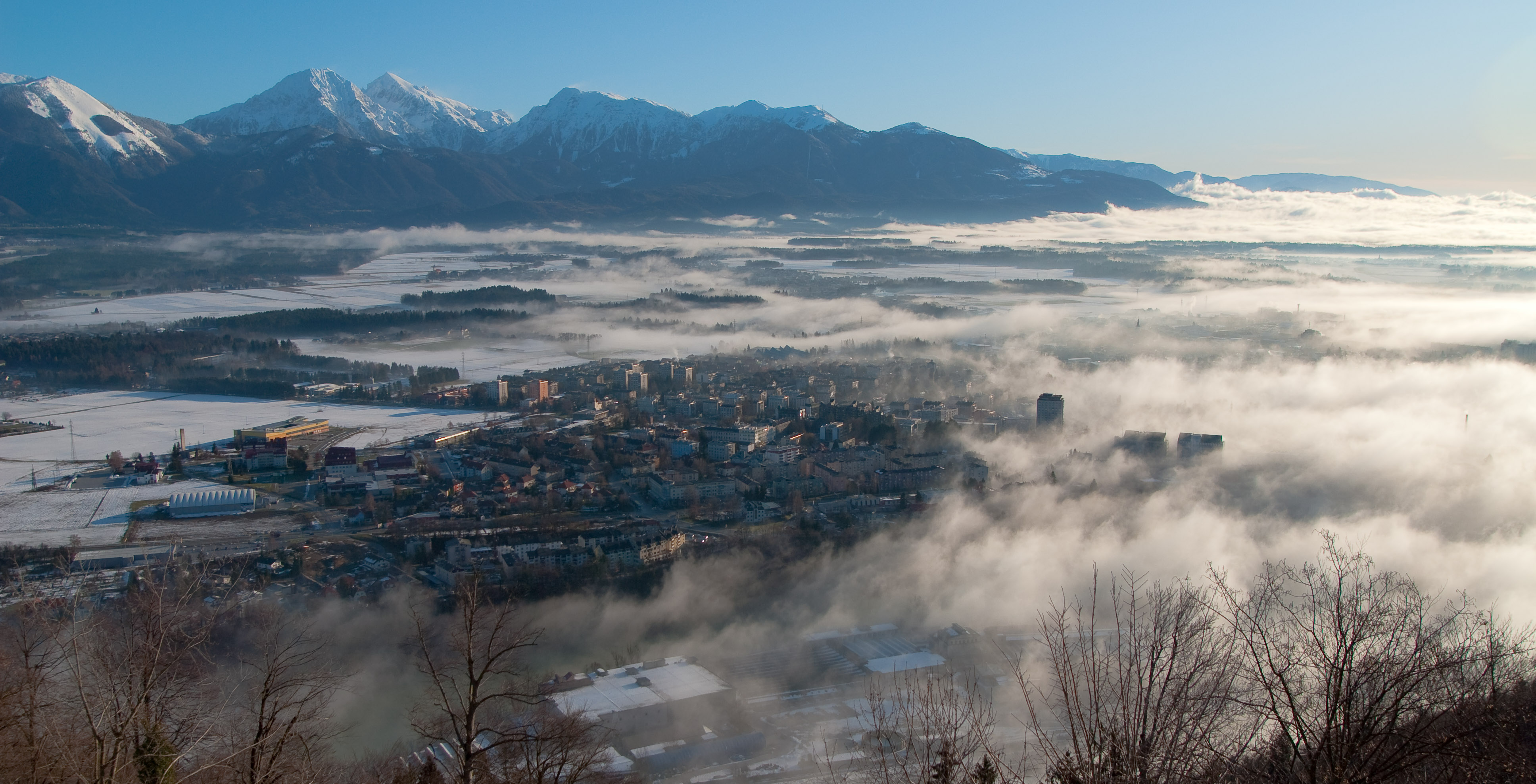 View from Šmarjetna gora on Kranj in morning mist